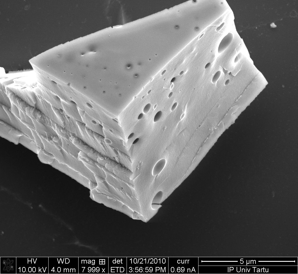 Smart glass structure